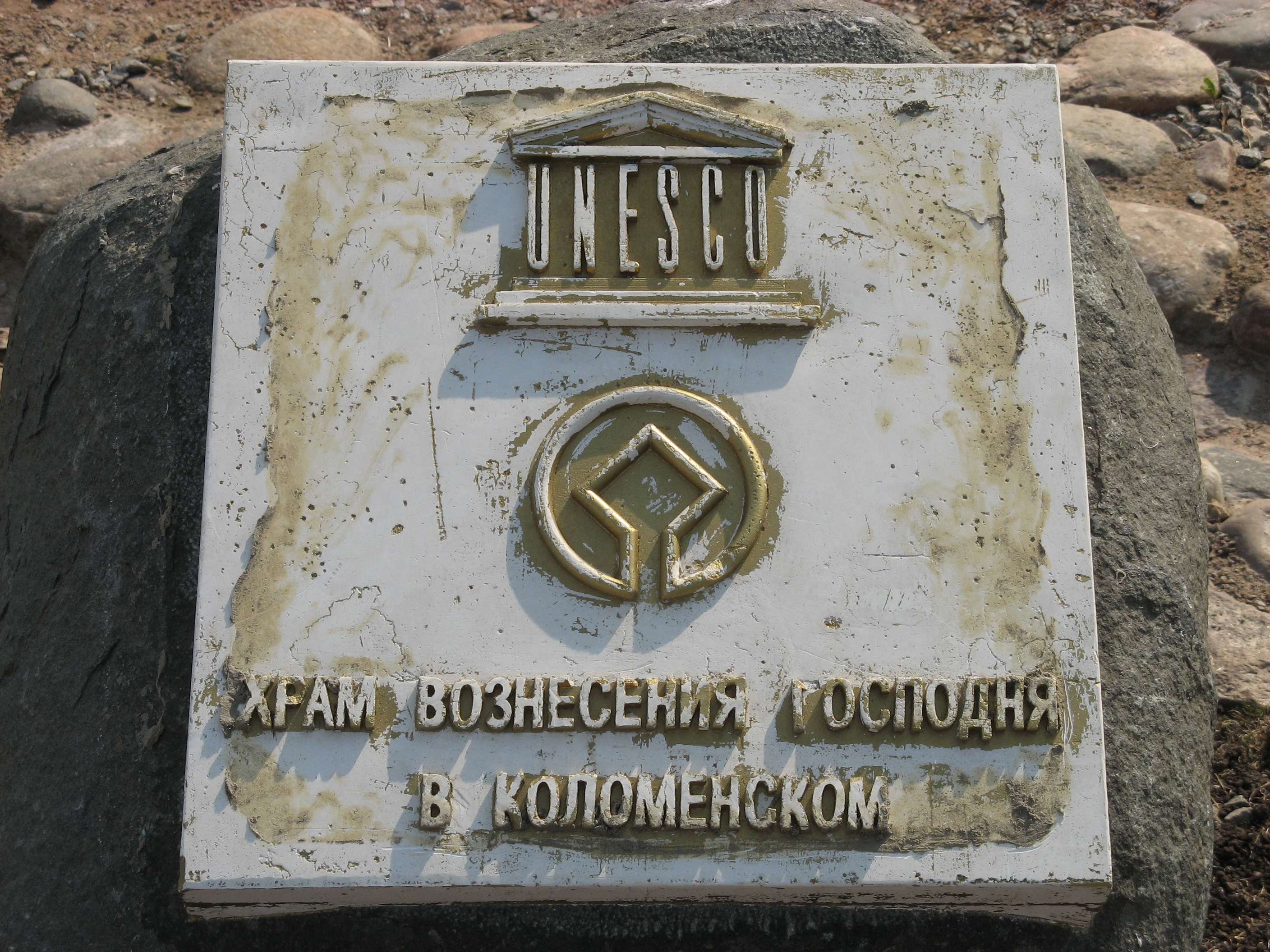 Unesco simbols in Kolomenskoye Moscow